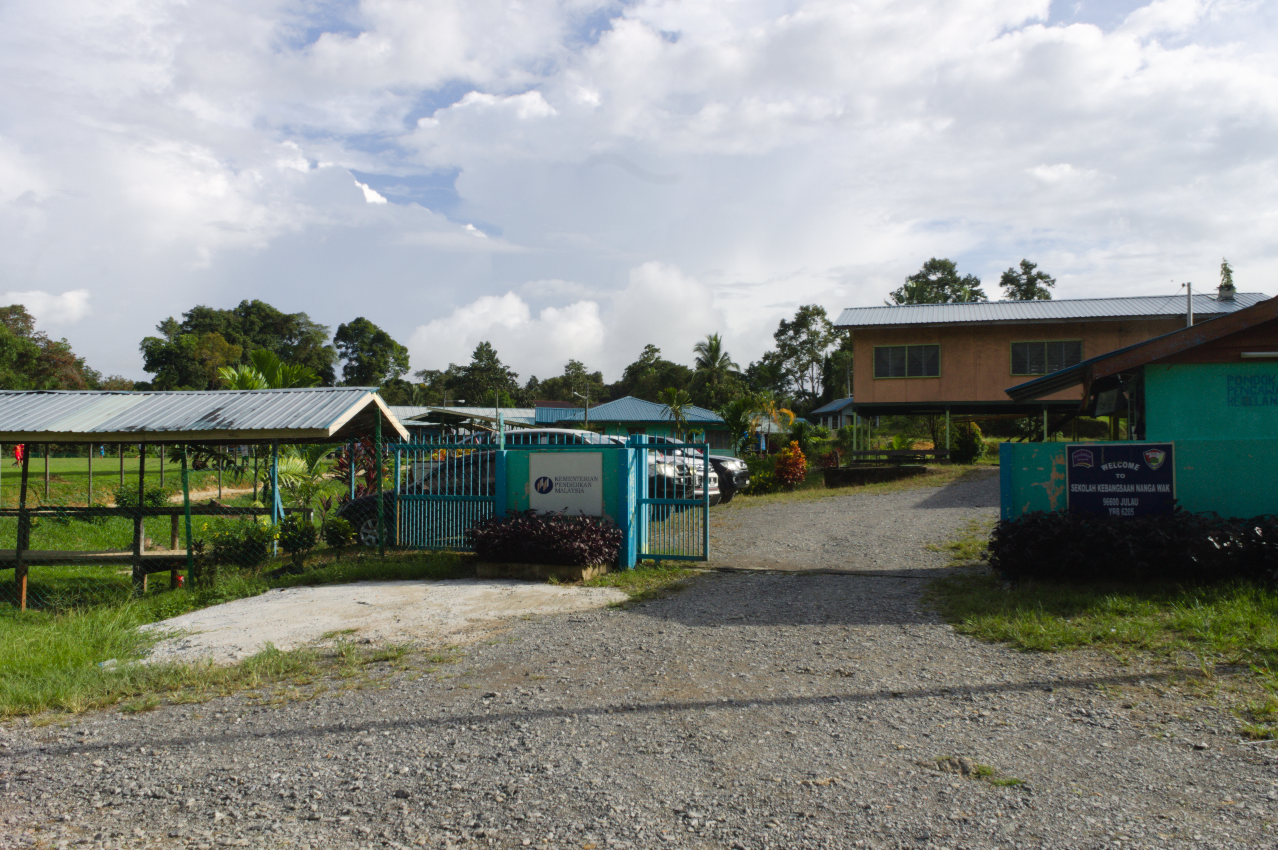 Front gate of SK Nanga Wak